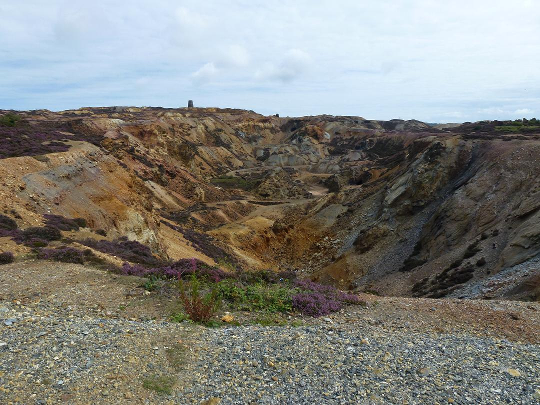 The Anglesey Copper Mountain near Amlwch, Wales, UK